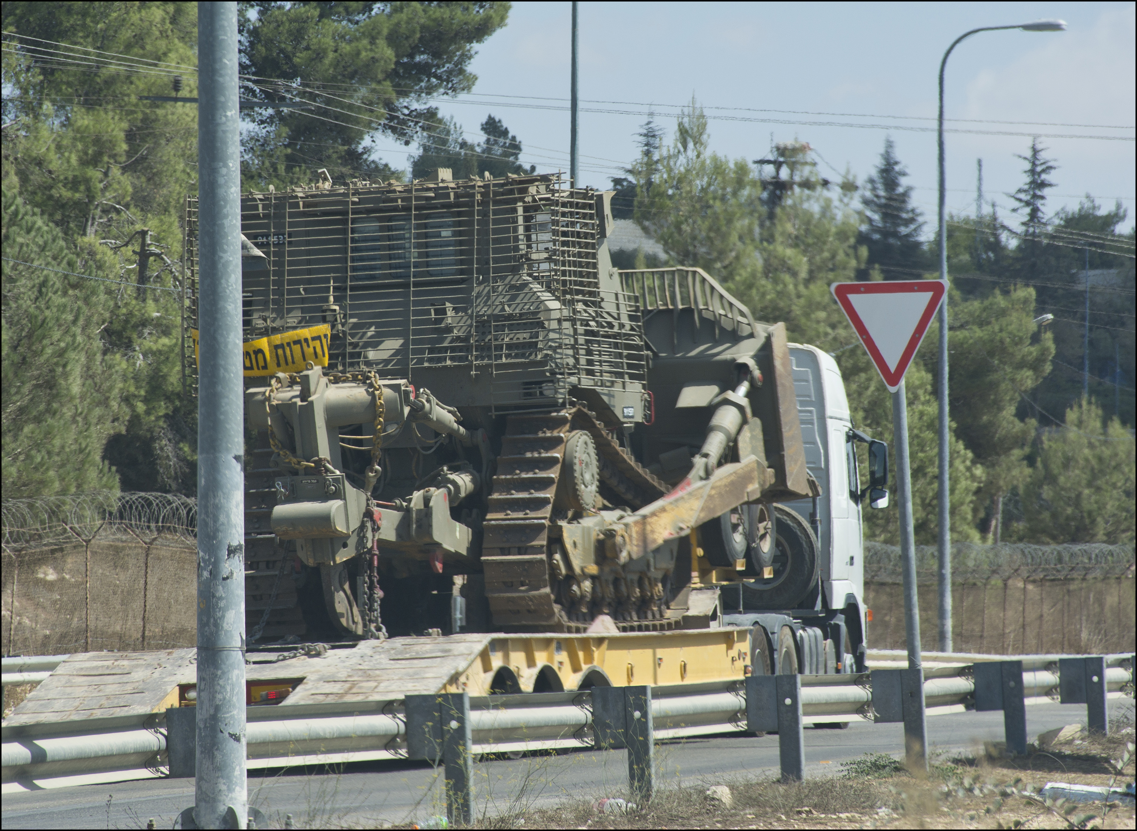 IDF Caterpillar D9 "Doobi" armored bulldozer transported by an heavy equipment carrier semi-trailer